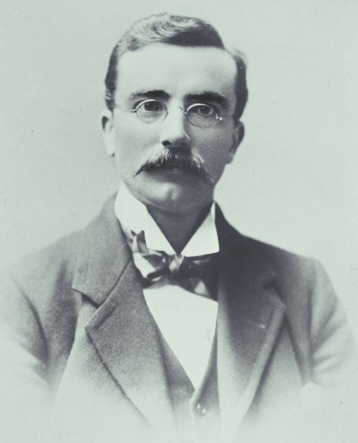 Andrew Henning From the 1898 Australasian Federal Convention Album.